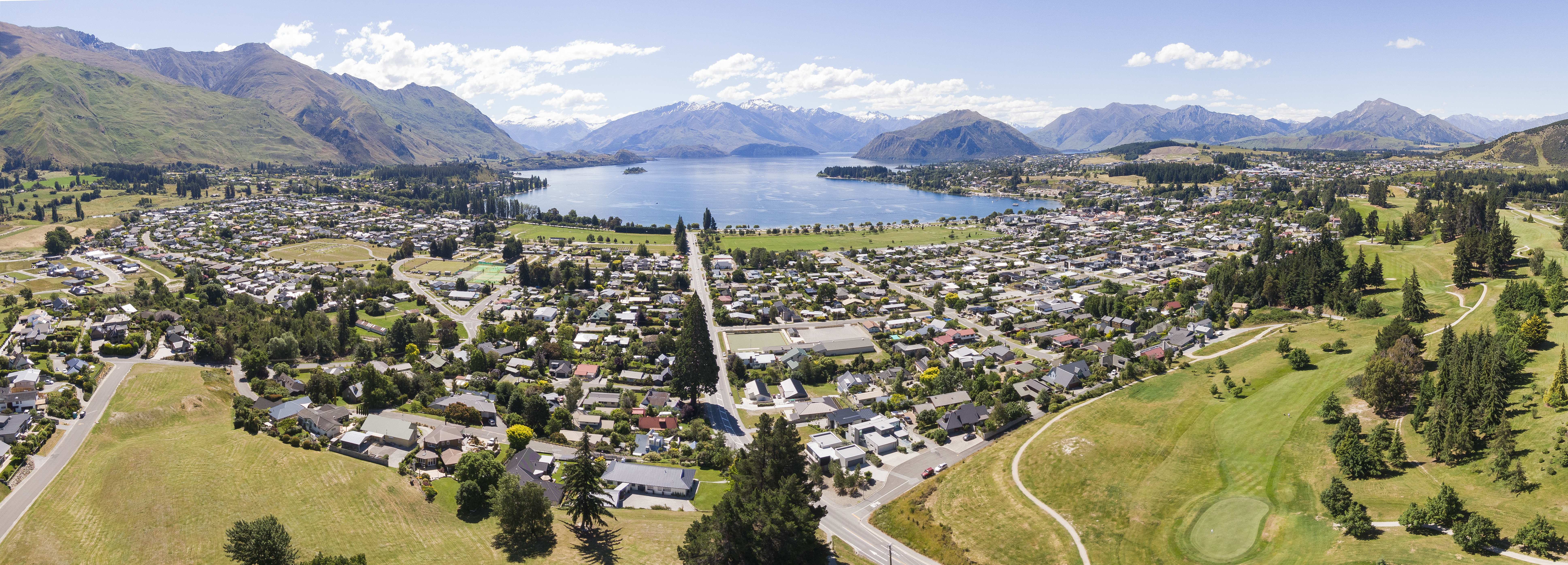 wanaka aerial panorama otago new zealand 2018